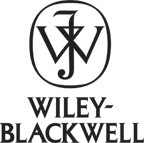 Wiley-Blackwell Publishing Logo